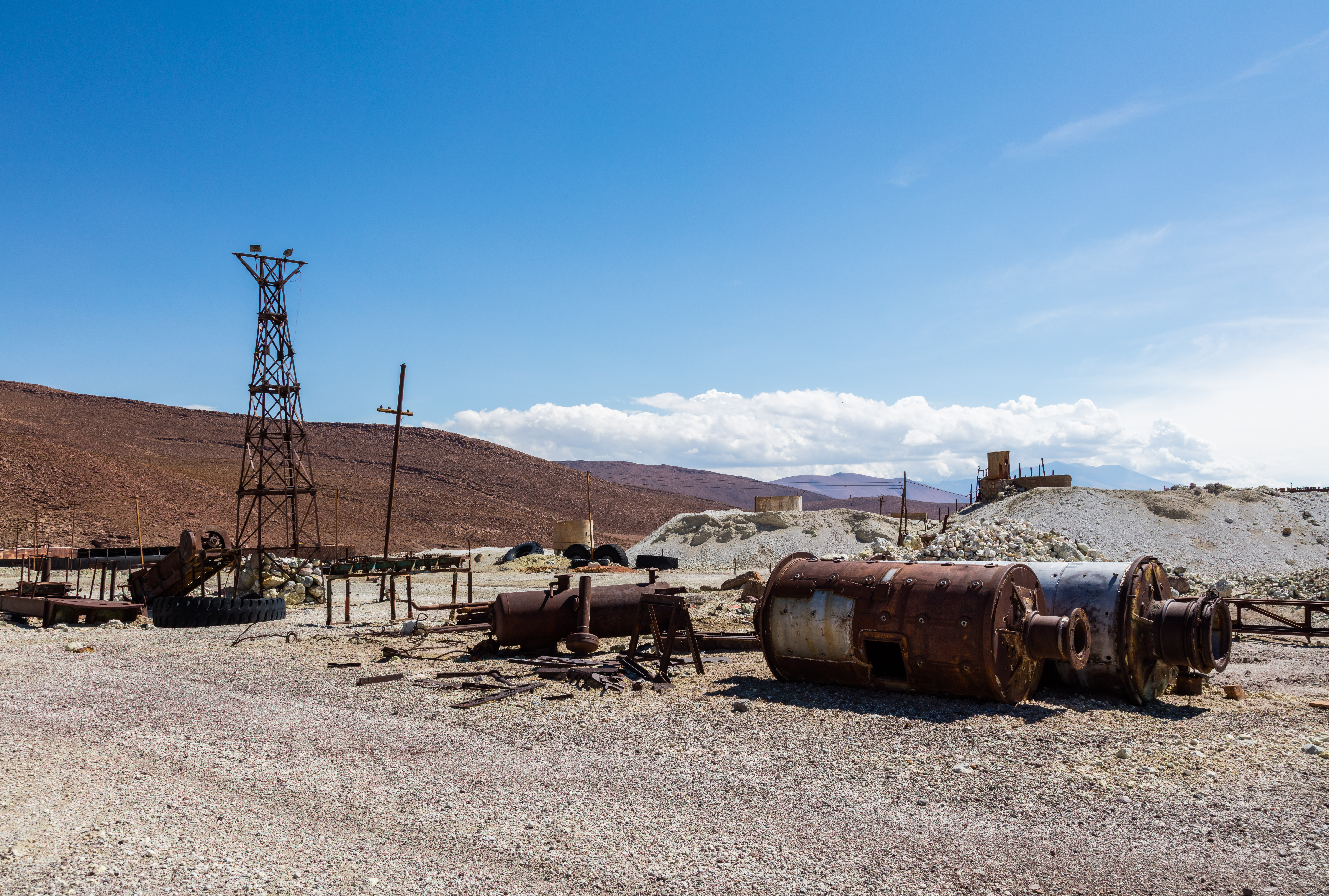 Aucanquilcha camp, Chile